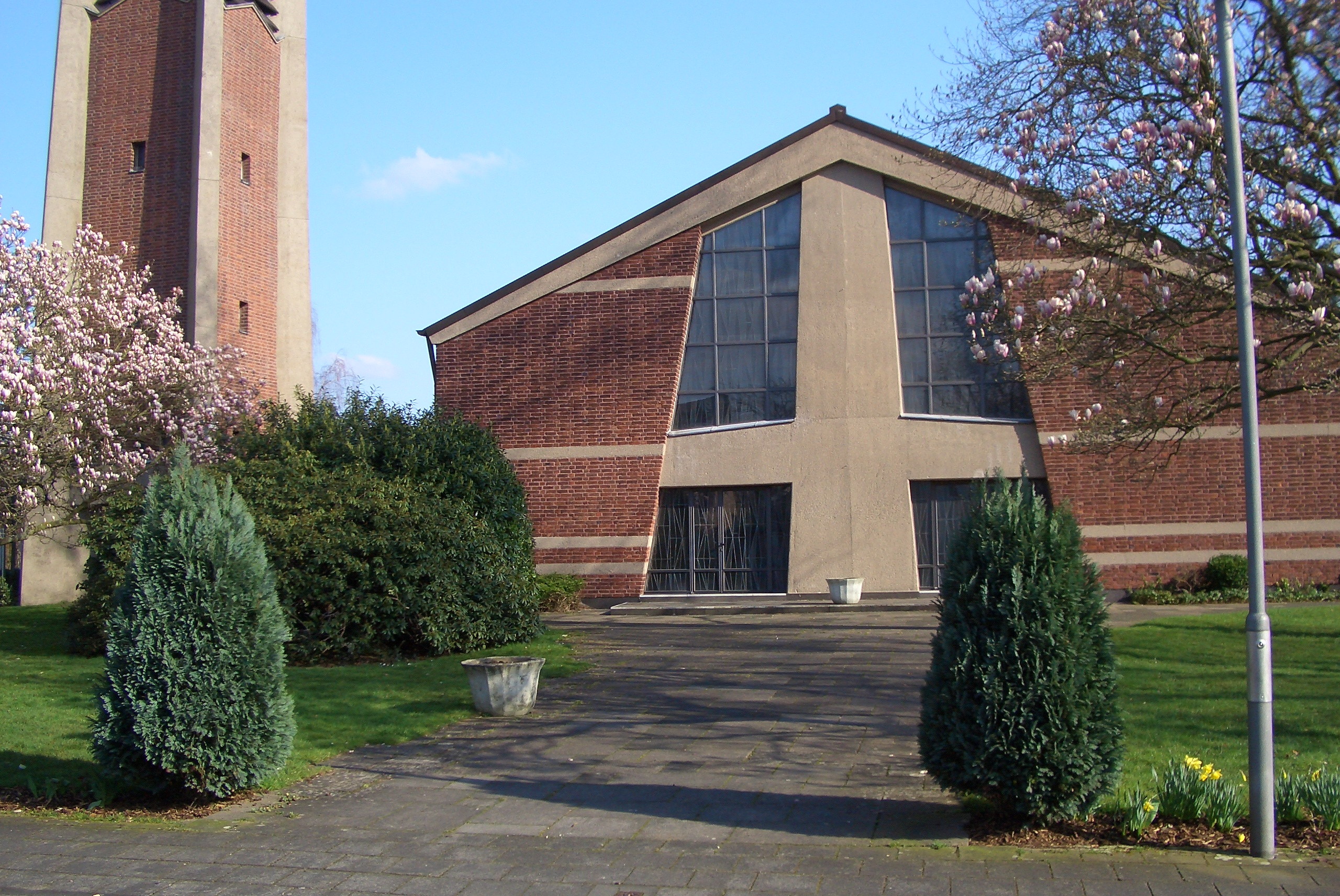 Catholic church St. Maria Königin in Sankt Augustin-Ort, Germany.